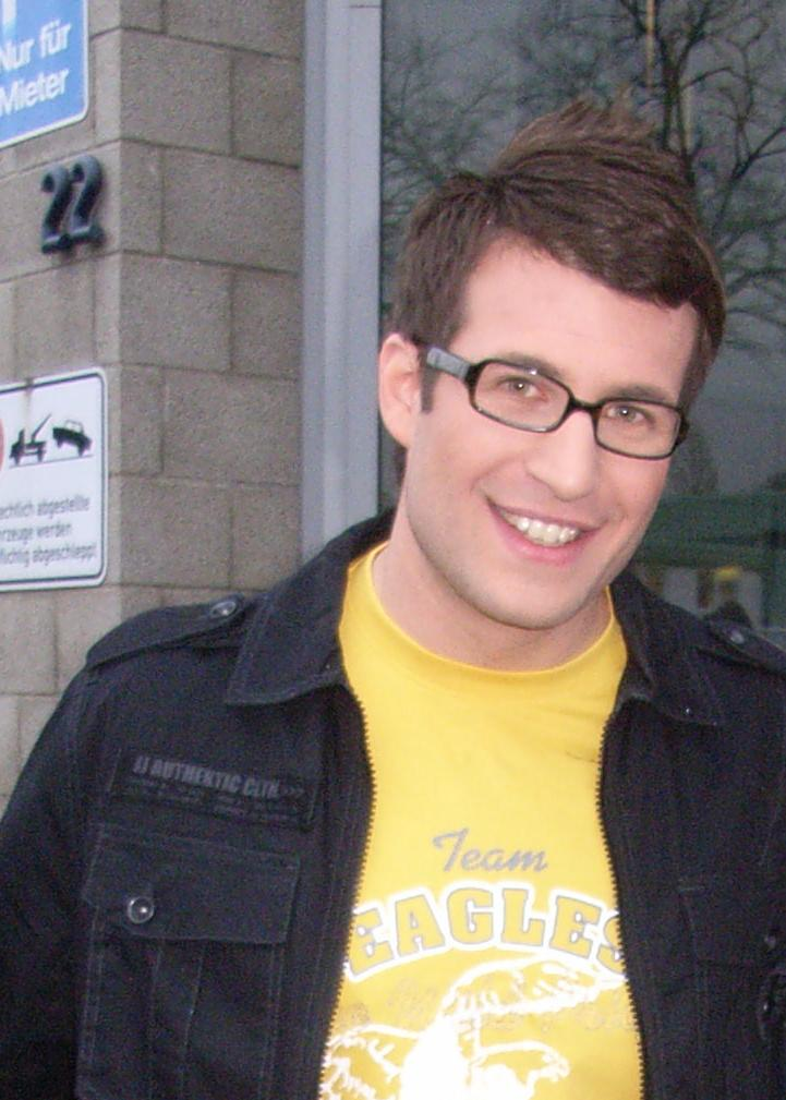 Daniel Hartwich